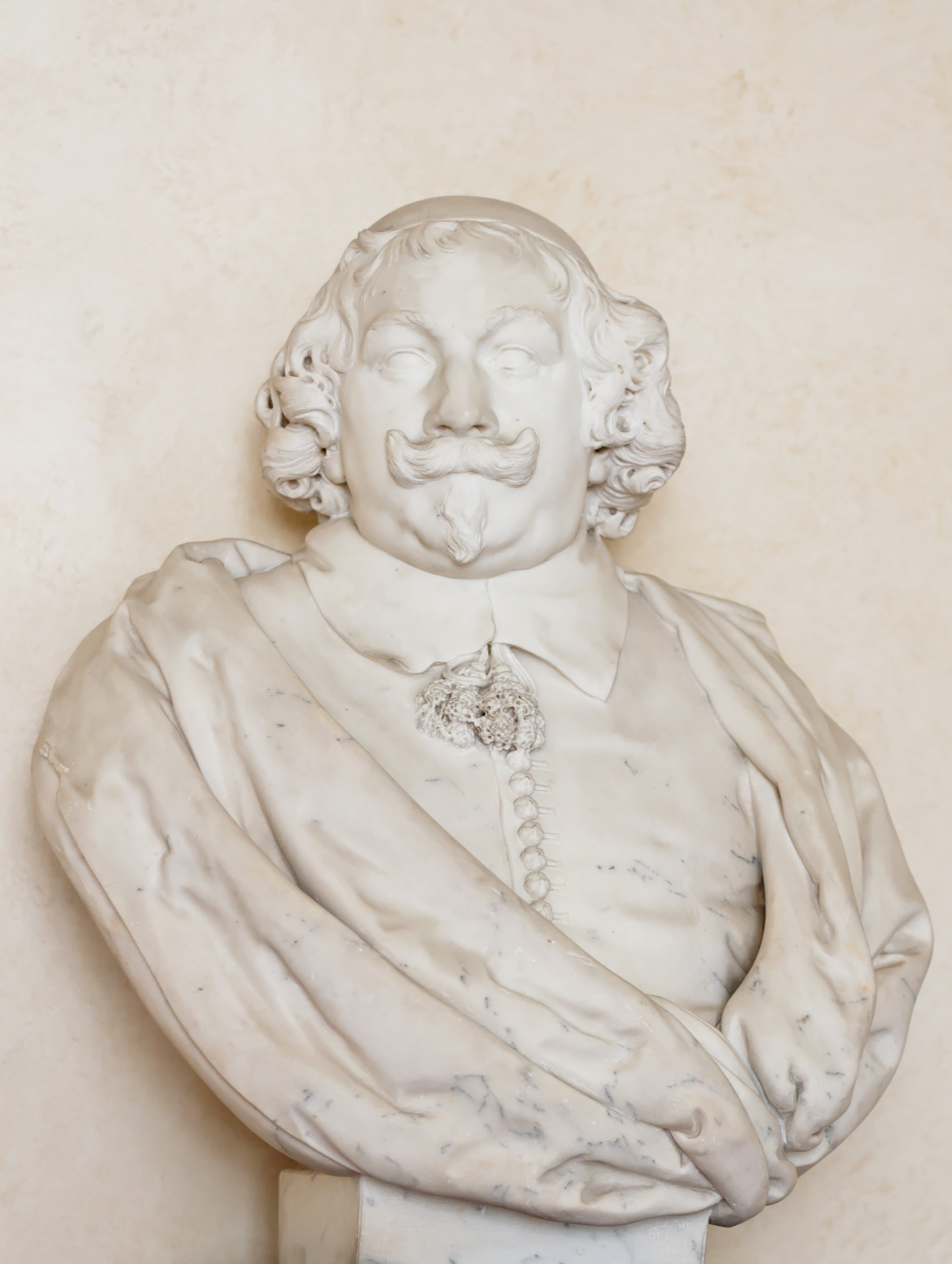 Bust of Cornelis Witsen (1606–1665), burgomaster of Amsterdam.